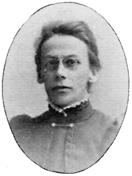 Image scanned from the book "Svenskt Porträttgalleri XX - Arkitekter, Bildhuggare, Målare m.fl. " ("Swedish Portrait Gallery XX - Architects, Sculptors, Painters, ") published 1901